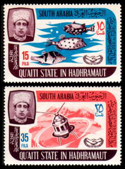 Postage stamps of Qu’aiti State in Hadhramaut (South Yemen), fishes, space object, 1966